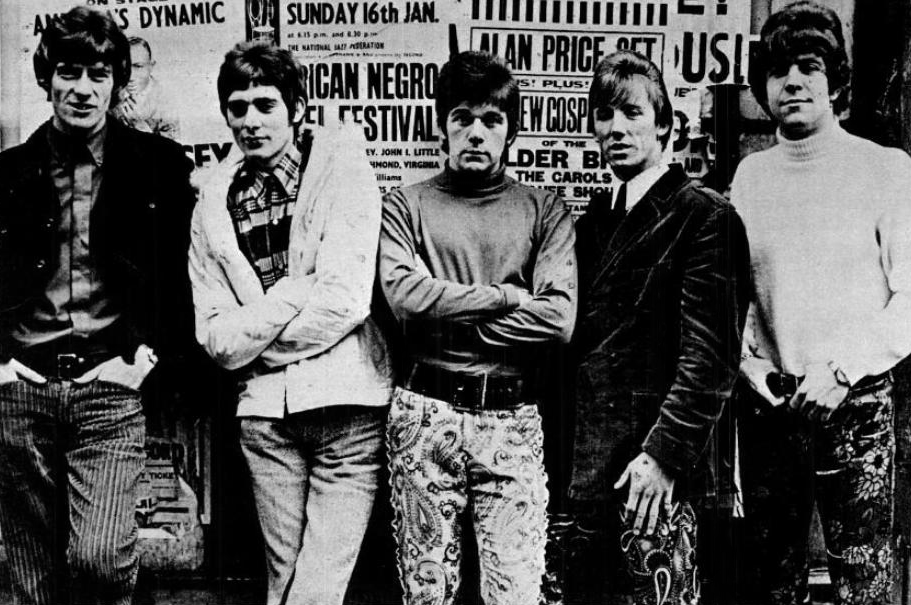 Trade ad for Dave Dee, Dozy, Beaky, Mick & Tich's single "Save Me". To better adapt it to his respective Wikipedia article, the ad was cropped and cleaned in a graphics editing program. The original can be viewed at the source below.